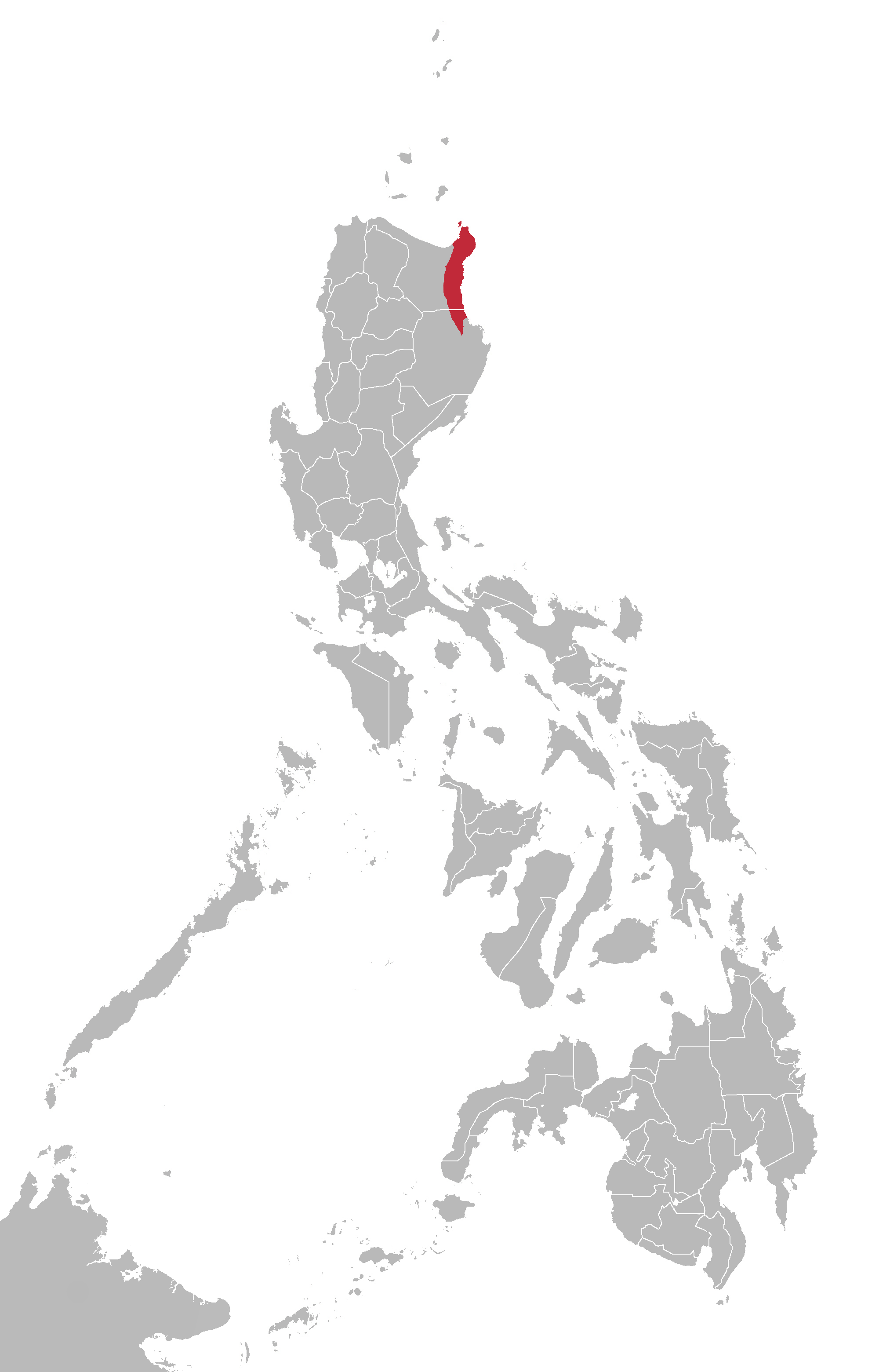 Dupaningan Agta language map based on Ethnologue maps